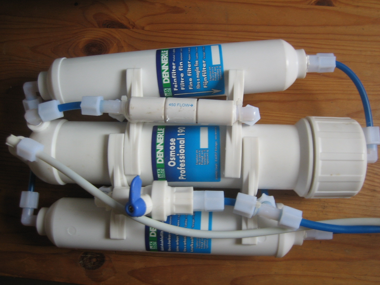 reverse osmosis device for aquarium water treatment